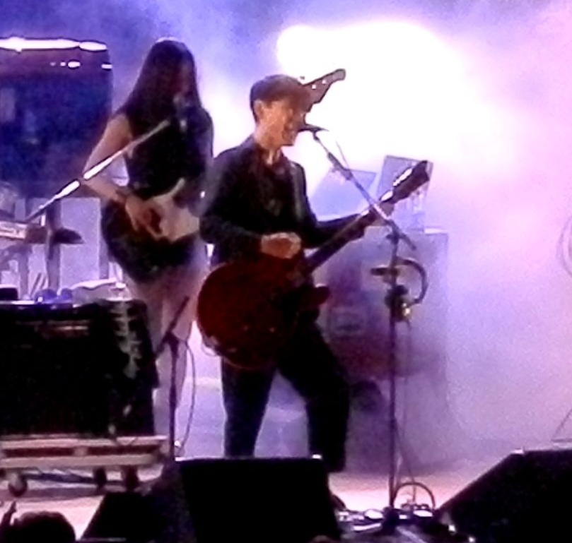 Ichiro Yamaguchi of Sakanaction at Join Alive rock festival in Iwamizawa, Hokkaido (June 21, 2013). Cropped version of File:Sakanaction11.jpg, focusing on Ichiro Yamaguchi